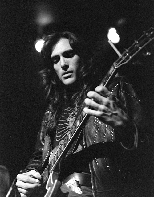 John Cippolina from the Quicksilver Messenger Service, performing with Copperhead. 12/19/76 Keystone Berkeley.